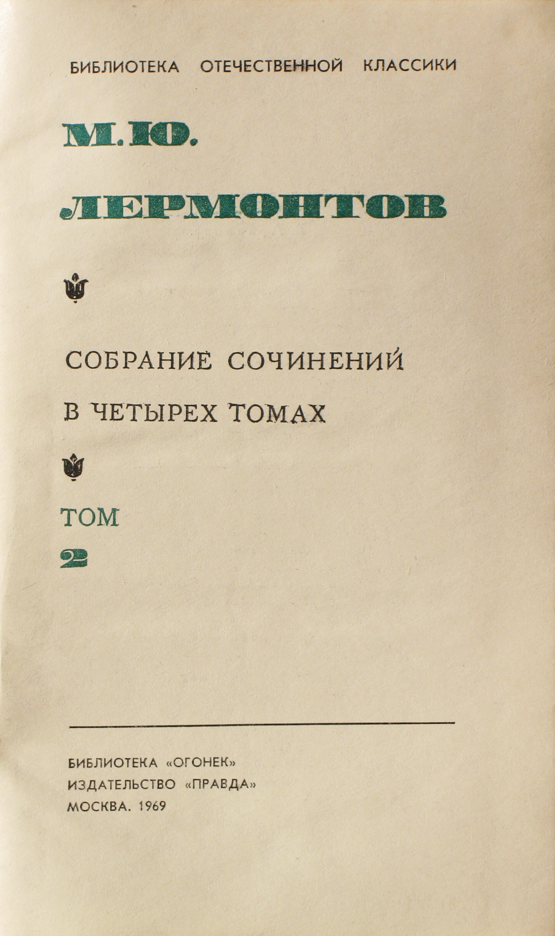 Mikhail Lermontov book. Moscow, Ogonek. Title page information.